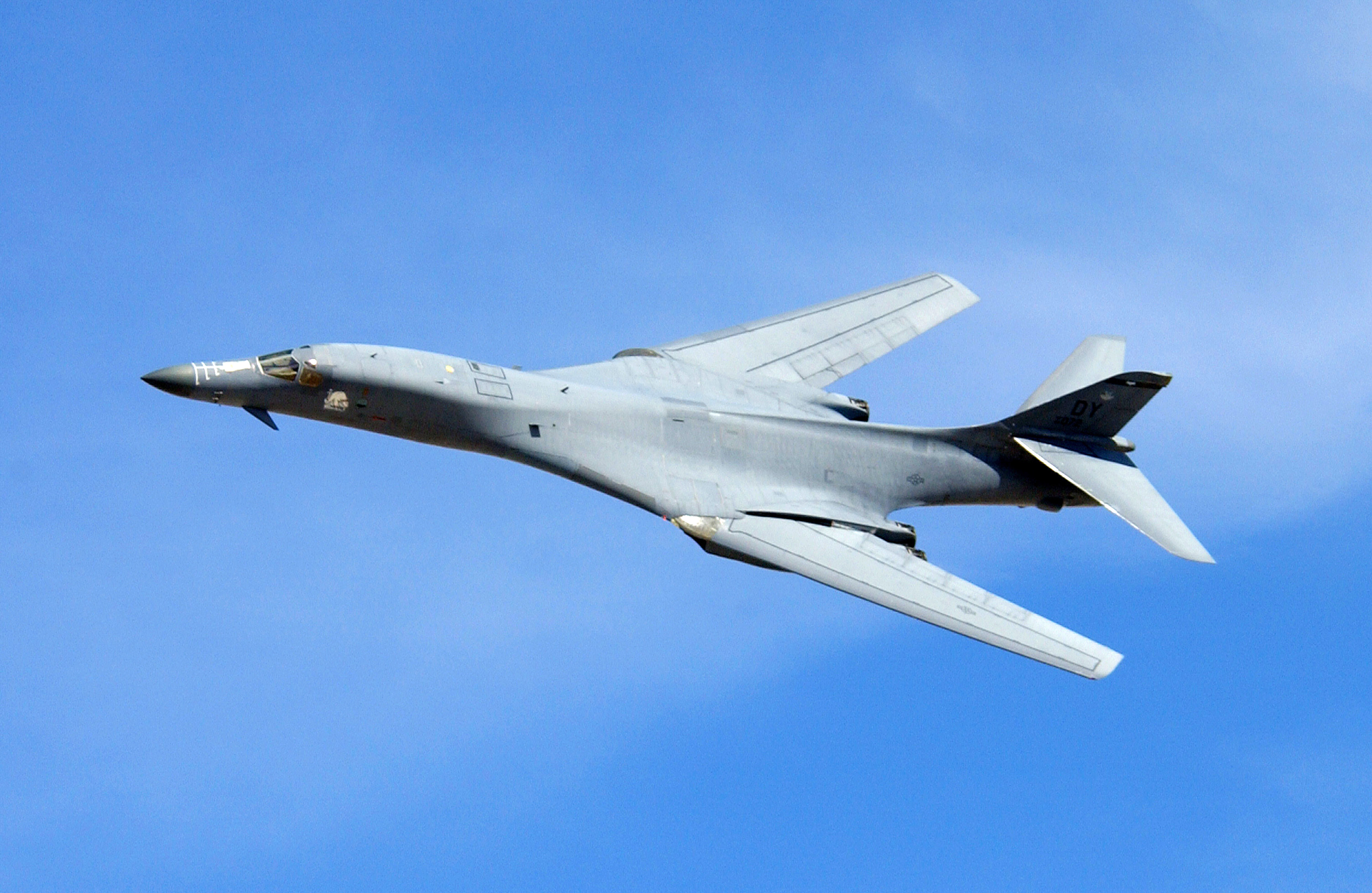 INDIAN SPRINGS AIR FORCE AUXILIARY FIELD, Nev. - A B-1 Lancer performs a fly-by during a firepower demonstration here recently. The bomber is from the 7th Bomb Wing at Dyess Air Force Base, Texas.